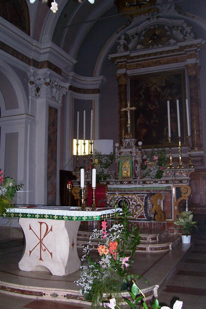 Altar of the parish church of Vitus, Modestus and Crescentia. Astrio, Breno, Val Camonica